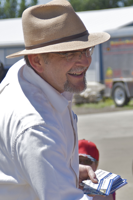 Tracy Potter, 2010 Democratic Party candidate for the United States Senate in North Dakota.